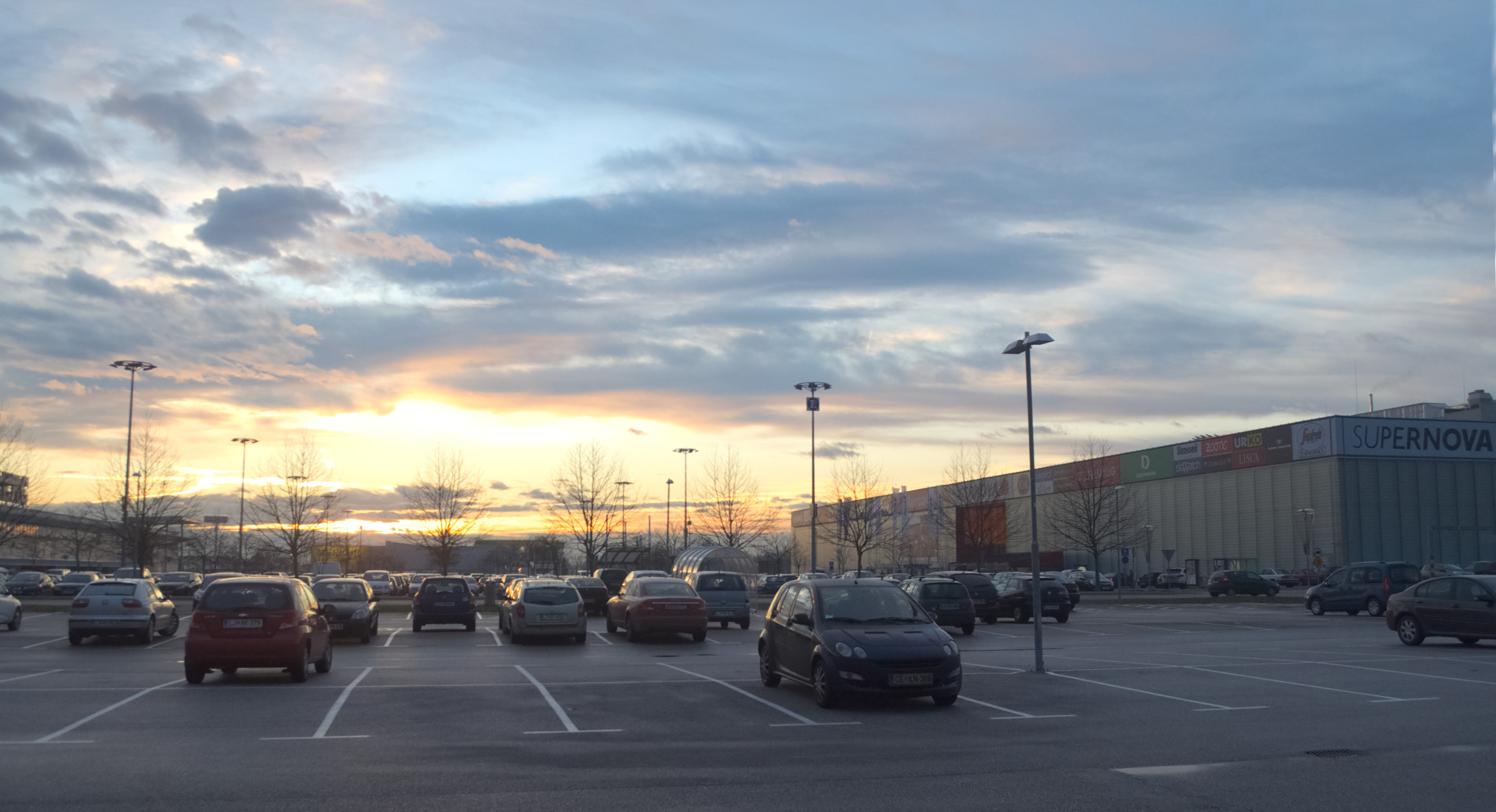 Shopping moll Ljubljana-Rudnik.